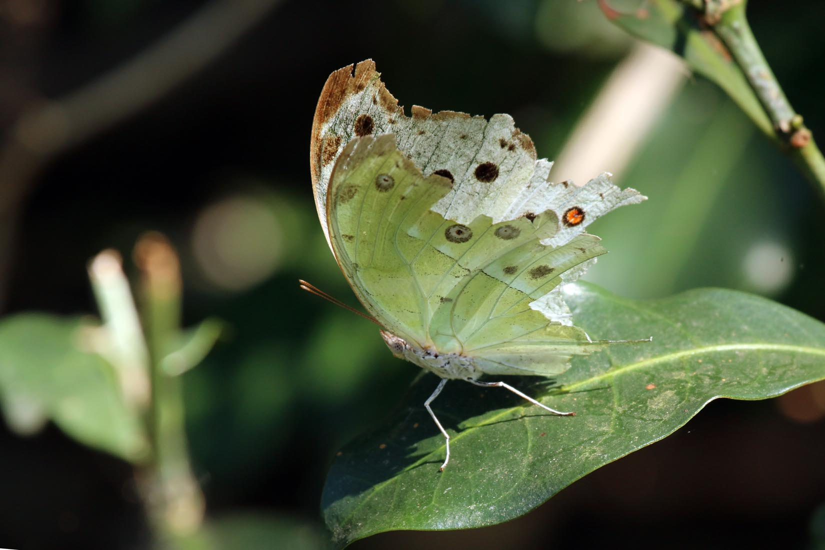 Forest mother of pearl butterfly (Protogoniomorpha parhassus aethiops), Lake Sibaya, KwaZulu Natal, South Africa